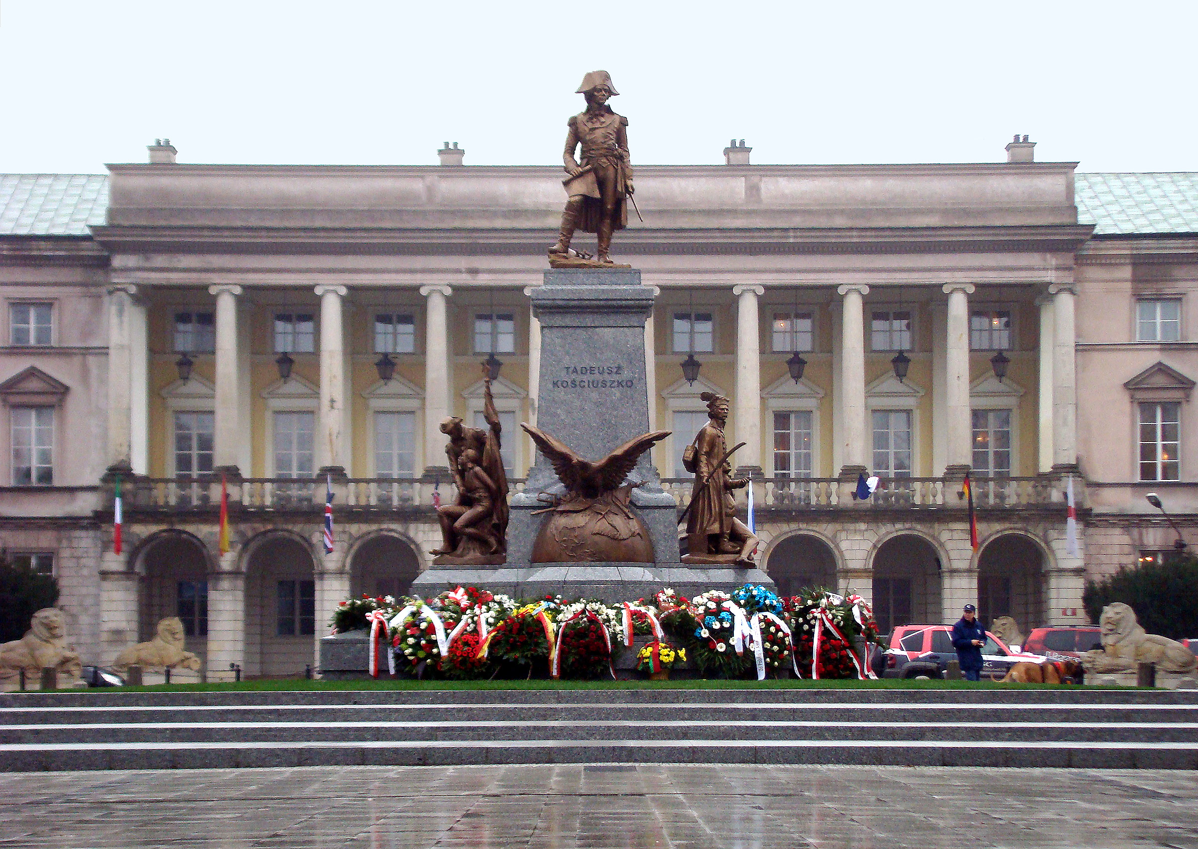 Kosciuszko monument Warsaw